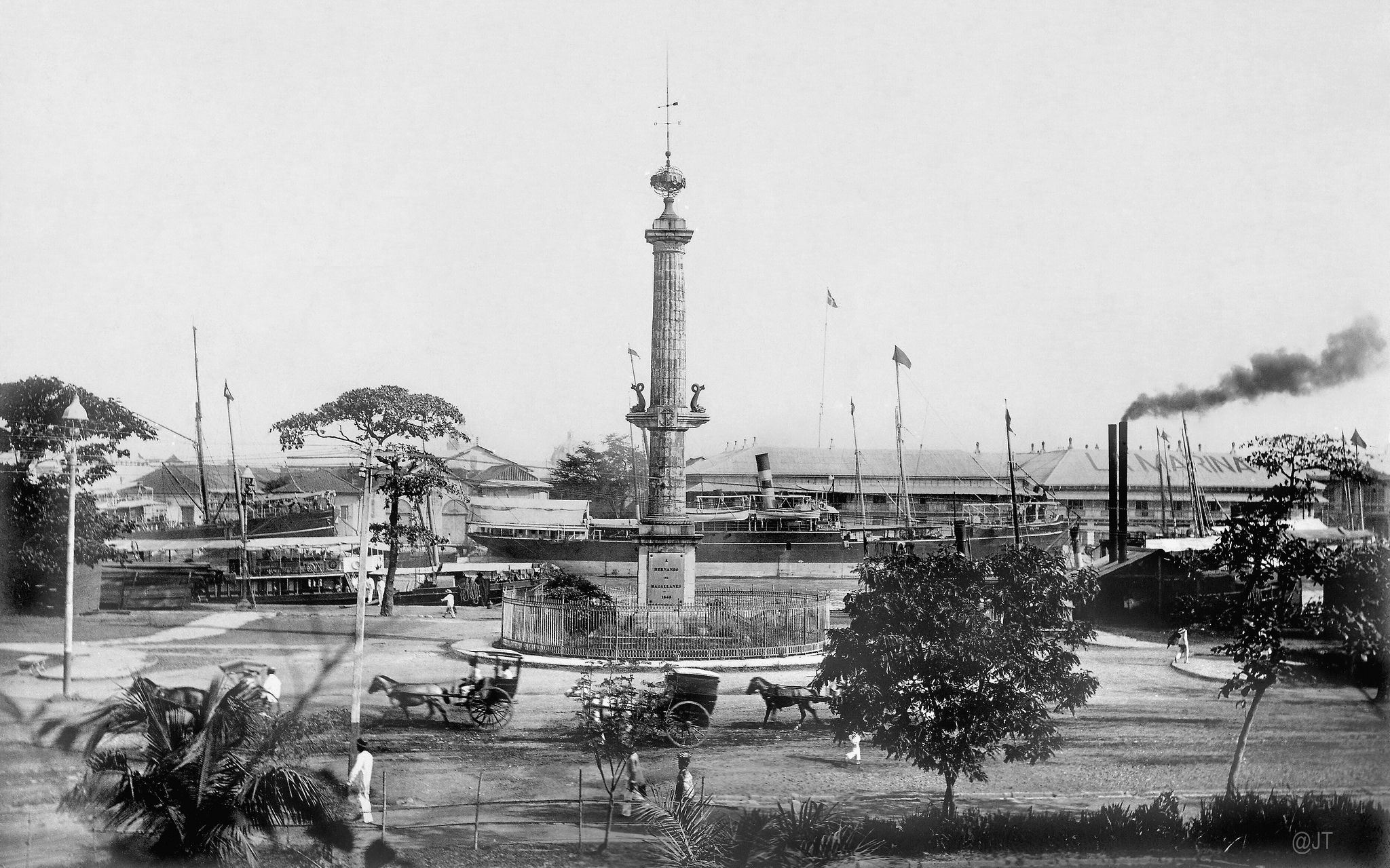 Magellan's Monument from top of Wall, Intramuros, Manila, Philippines, 1900-1902. Original photograph is in the University of Michigan Special Collections Library.